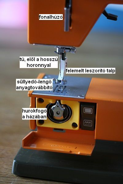 A Husqvarna 3600 sewing machine